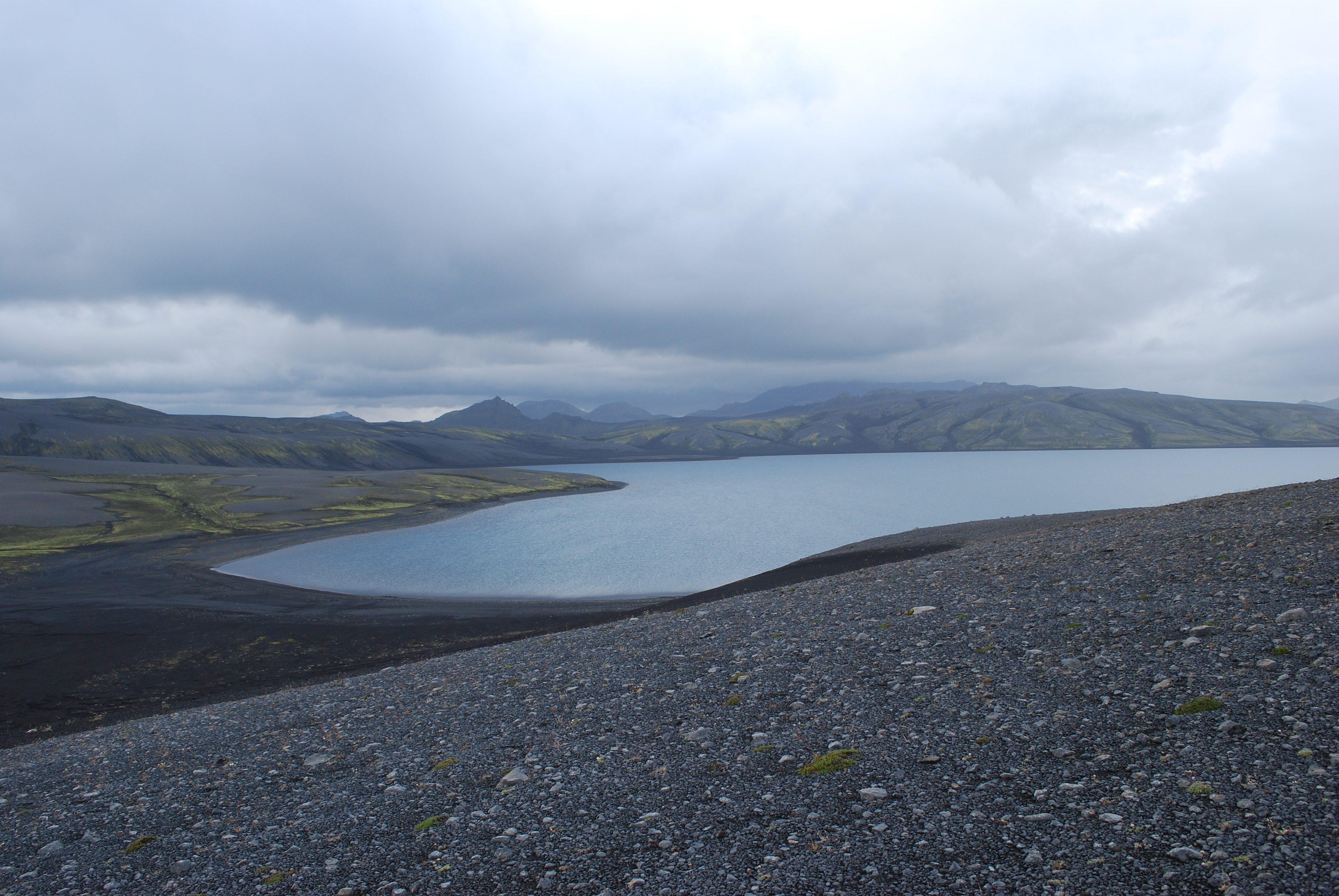 Lambavatn lake near Laki volcano, Iceland